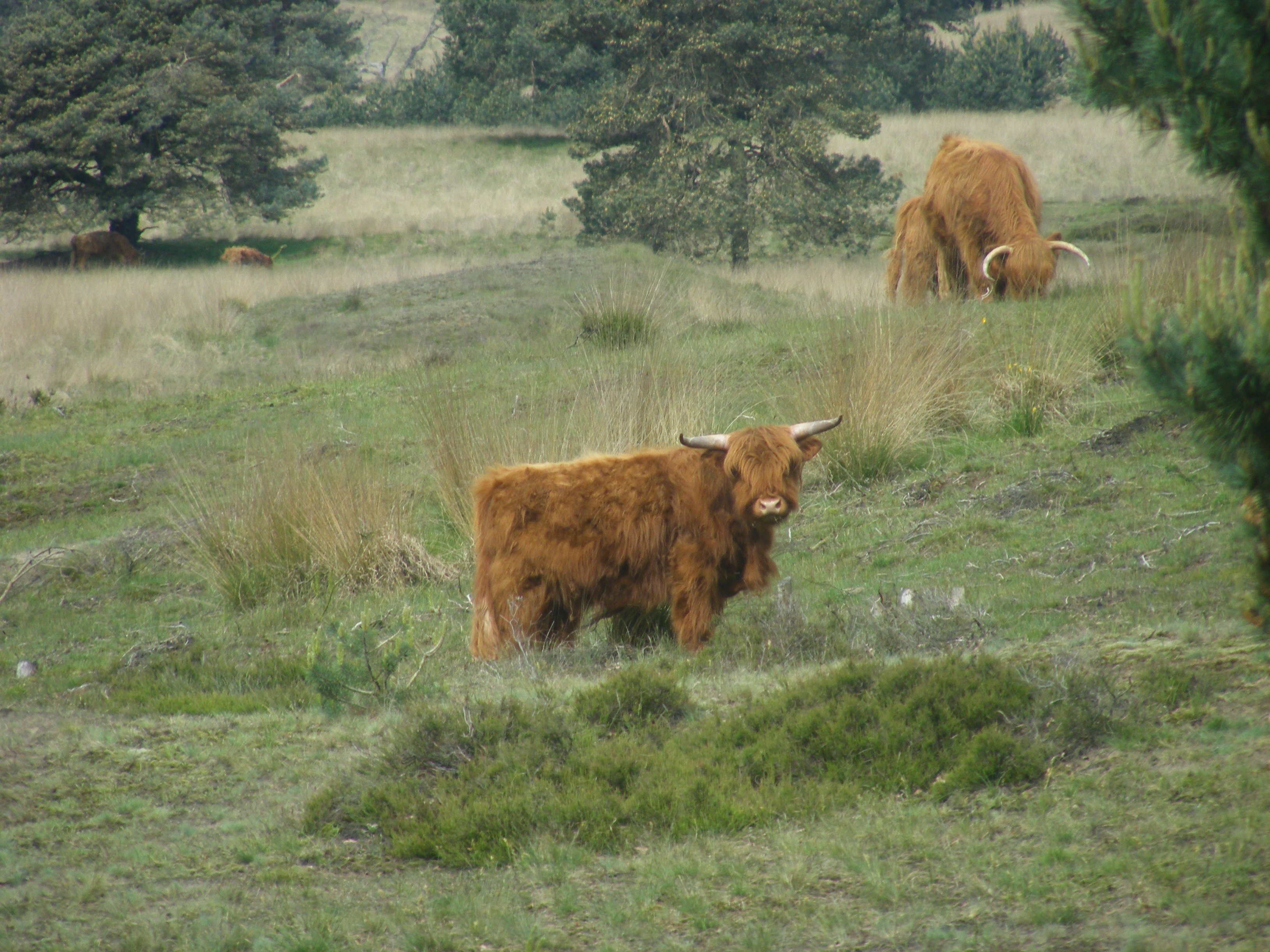 This is a photo or sound file made in Veluwezoom National Park in the Netherlands, with the main subject of the file in the category: animals